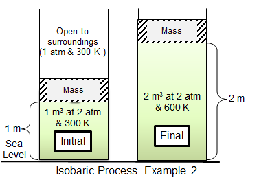 This example has been created by me independently on an open software.